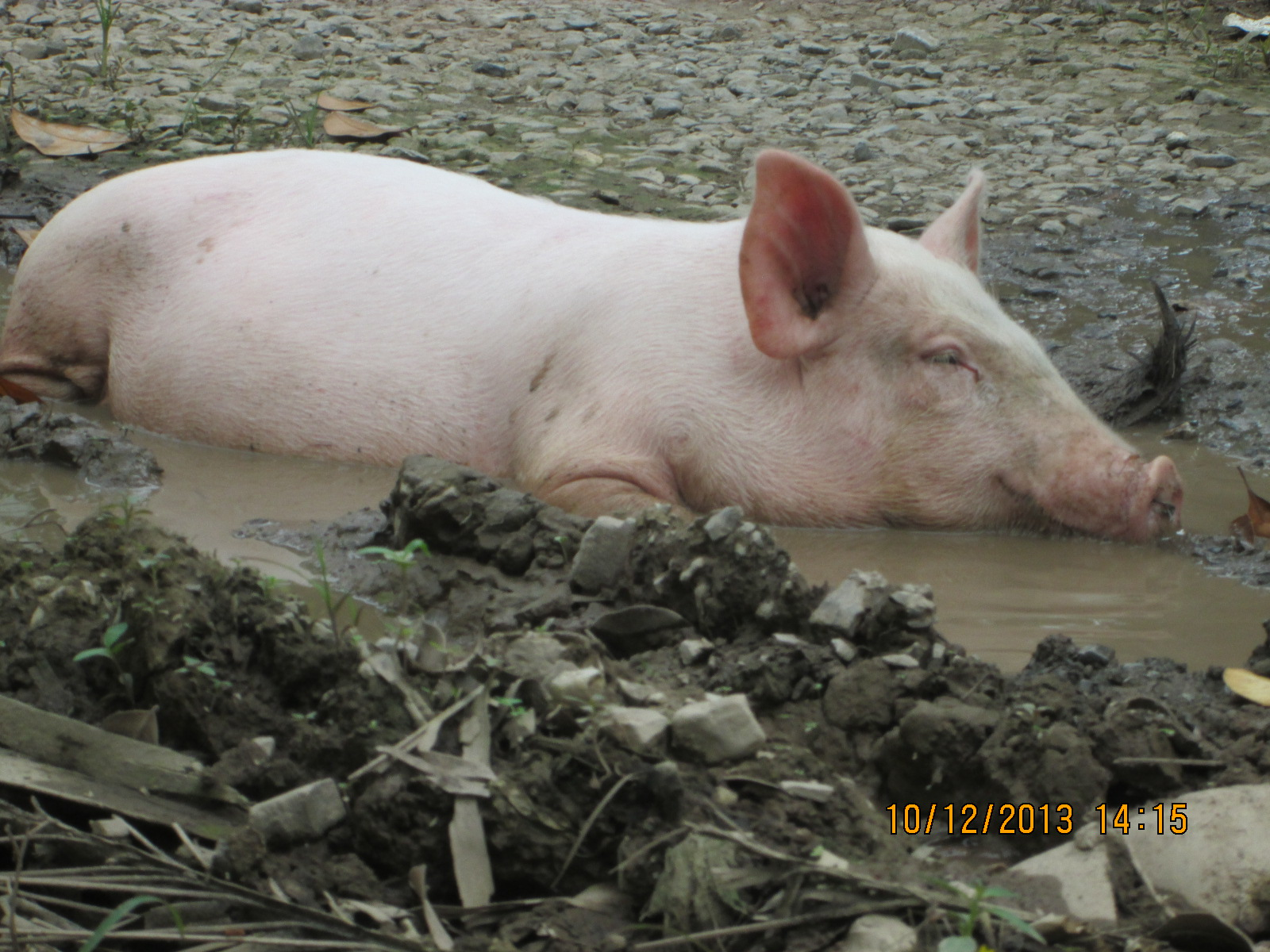 Typical pig behaviour in the village of Ben Tre in Vietnam.